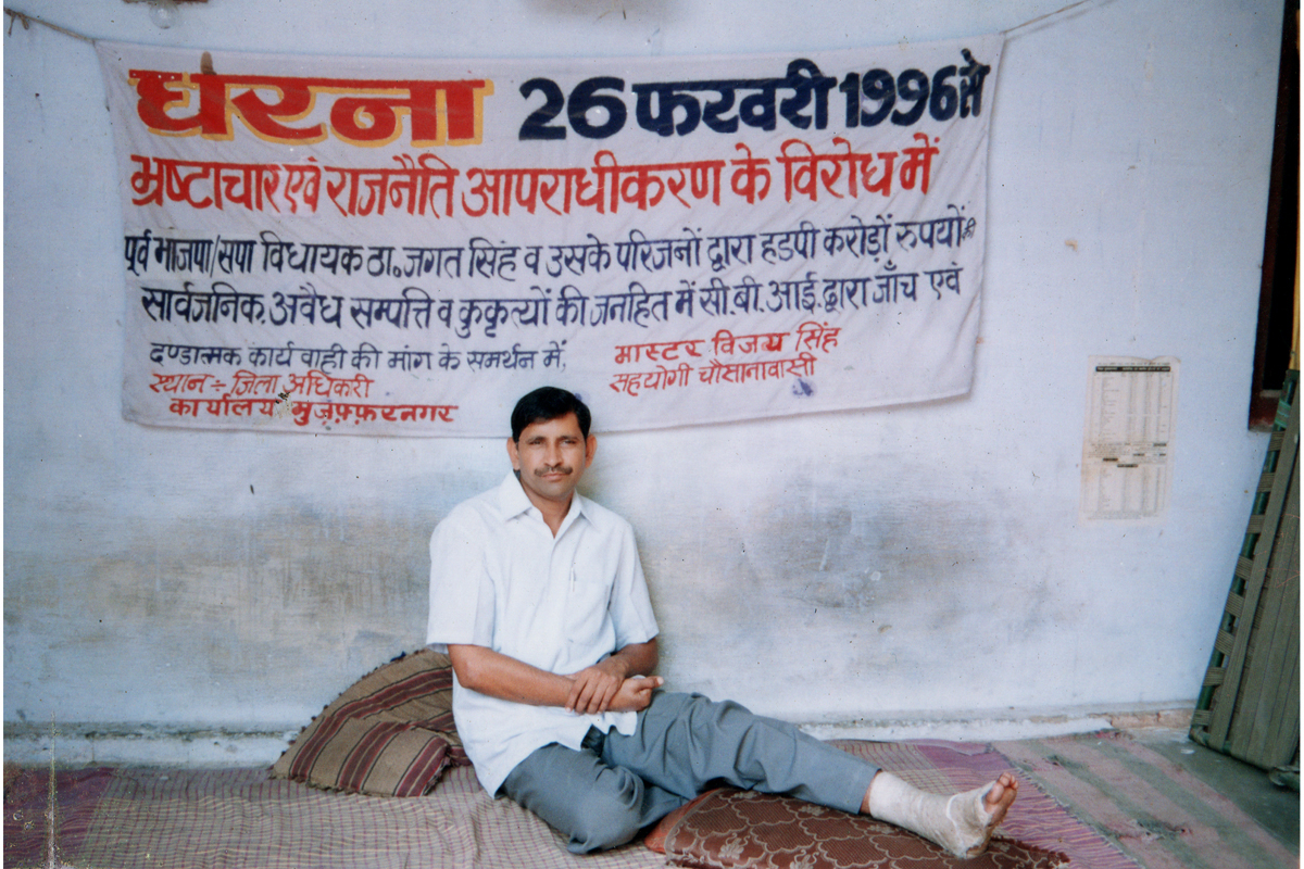 This was the year 1996, the time of start of agitation.